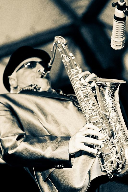 Photo taken by Maurizio Rossi taken at the 2013 Isola Jazz Festival in Isola del Cantone. Italy